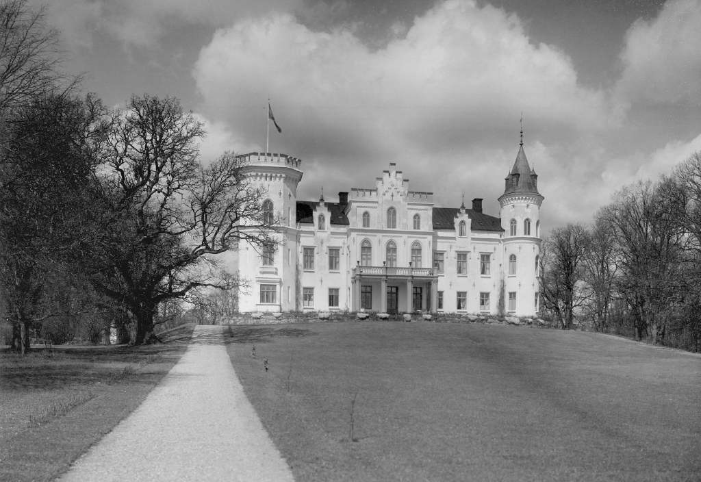 The manor "Boo", Hallsberg municipality, Sweden